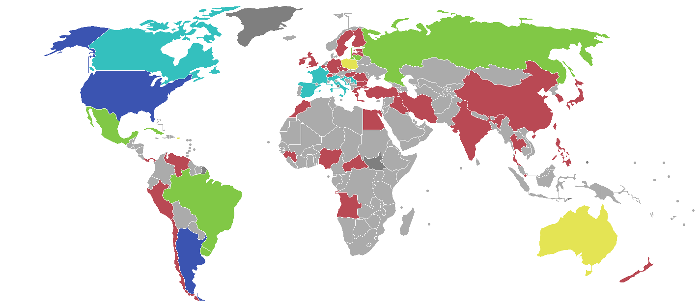 Top finishes of countries that played in the men's tournament of basketball at the Summer Olympics.